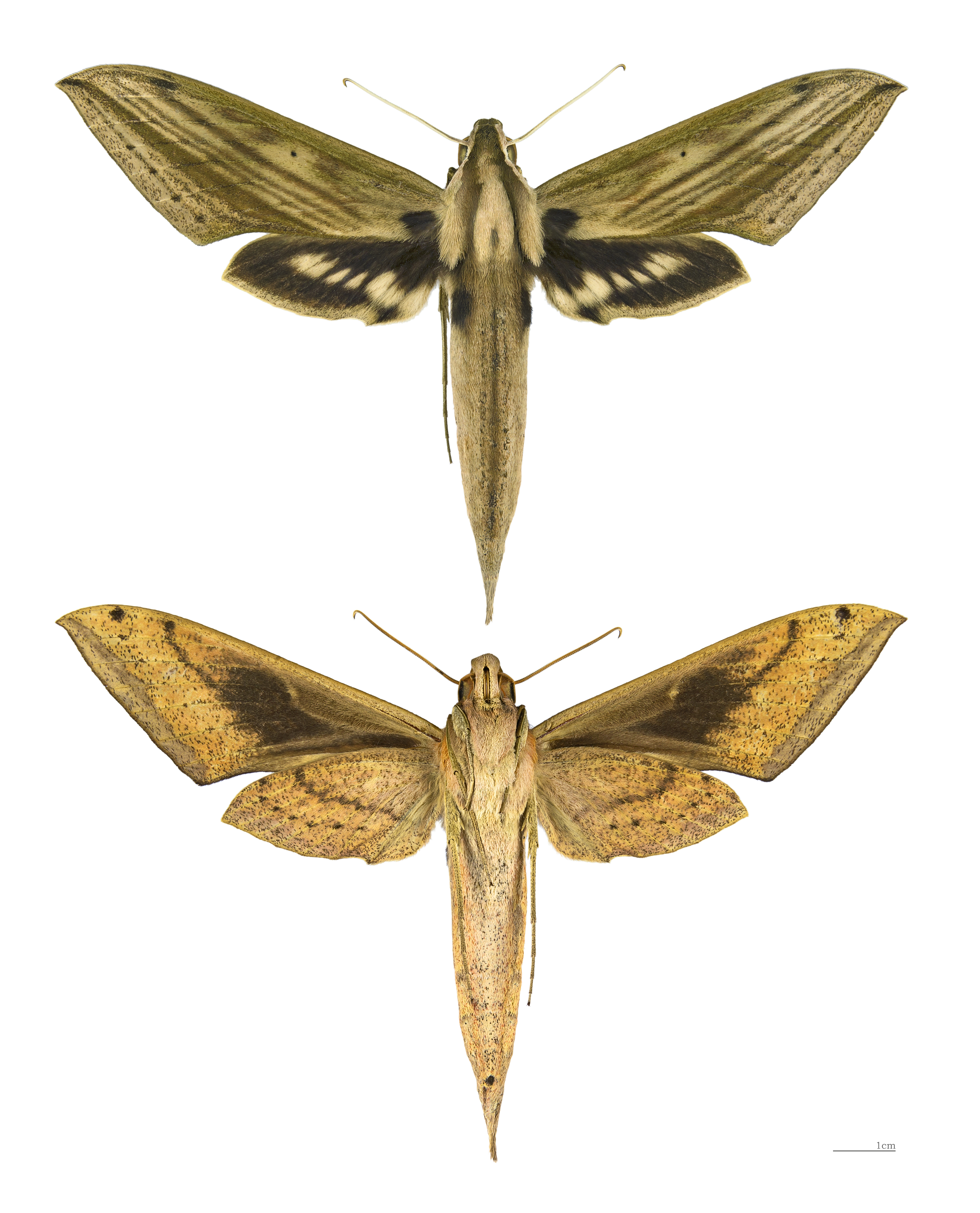 Xylophanes anubus - Two views of same specimen